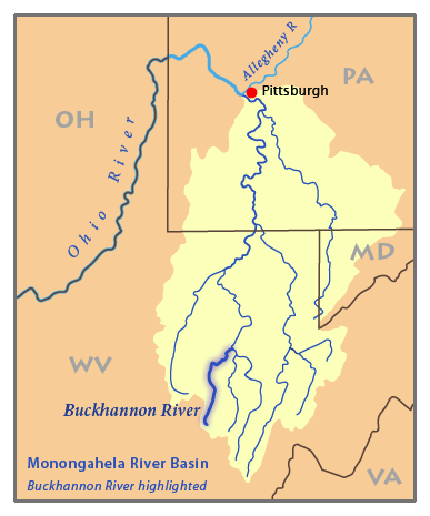 This is a map of the Monongahela River basin, with the Buckhannon River in West Virginia highlighted. Credits I, Pfly, made it, based on USGS data.